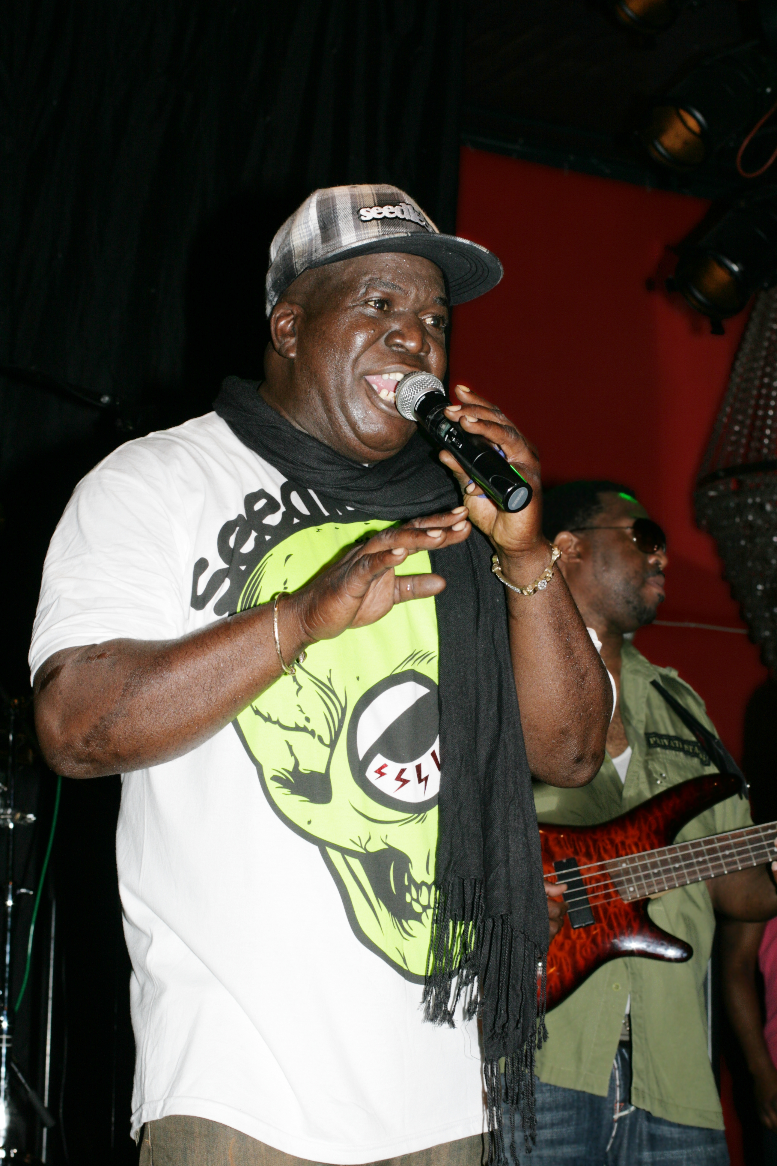 Barrington Levy during concert at Göta Källare in Stockholm 29th of november 2009.